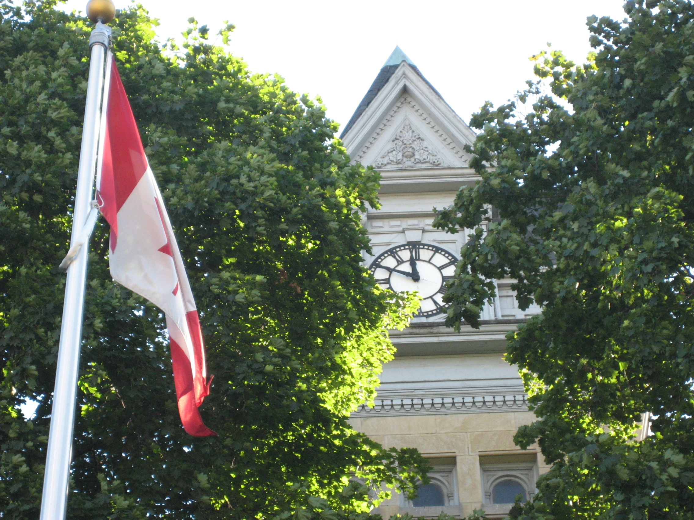 Central Public School building, Clock Tower, Hunter Street West, downtown Hamilton